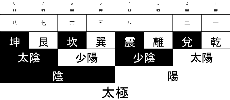 another drawing of Ba Gua development (numbered) Mono-, Di- and Trigrams as from Zhū Xī (朱熹) in Zhōuyì zhèngyì (周易正義) (white square means and black square means )